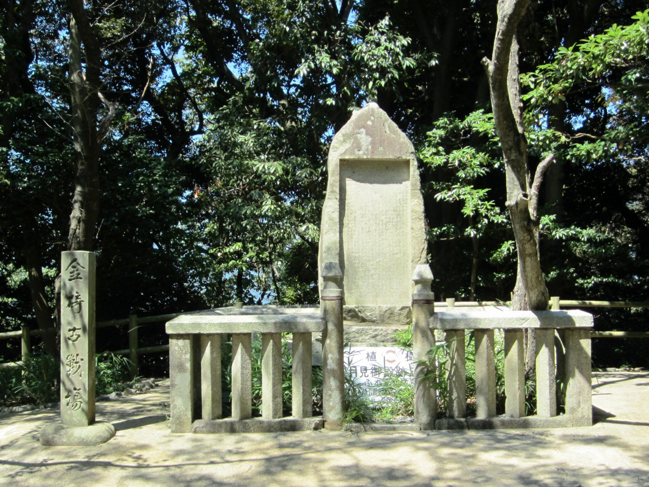 The memorial stone of the 1337 Siege of Kanegasaki at the site of Kanegasaki Castle in Tsuruga, Fukui.